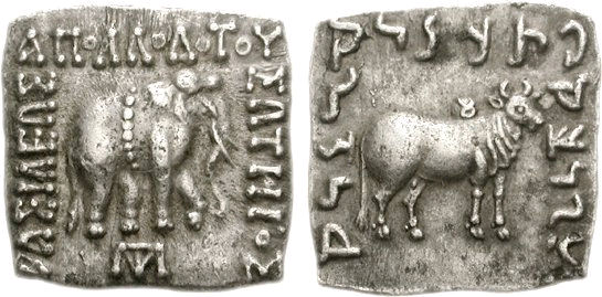 Apollodotus I nandipada symbol